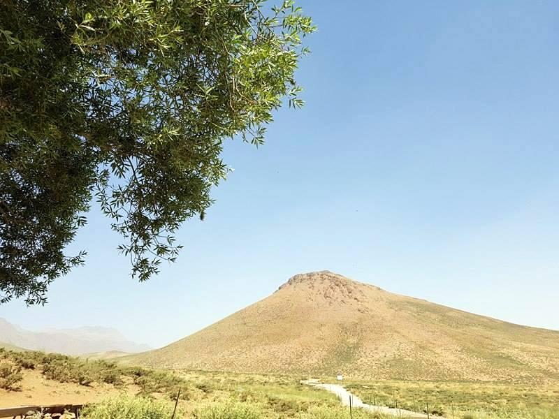 Golestan Mountain in Persia -- Photo by Persian Dutch Network